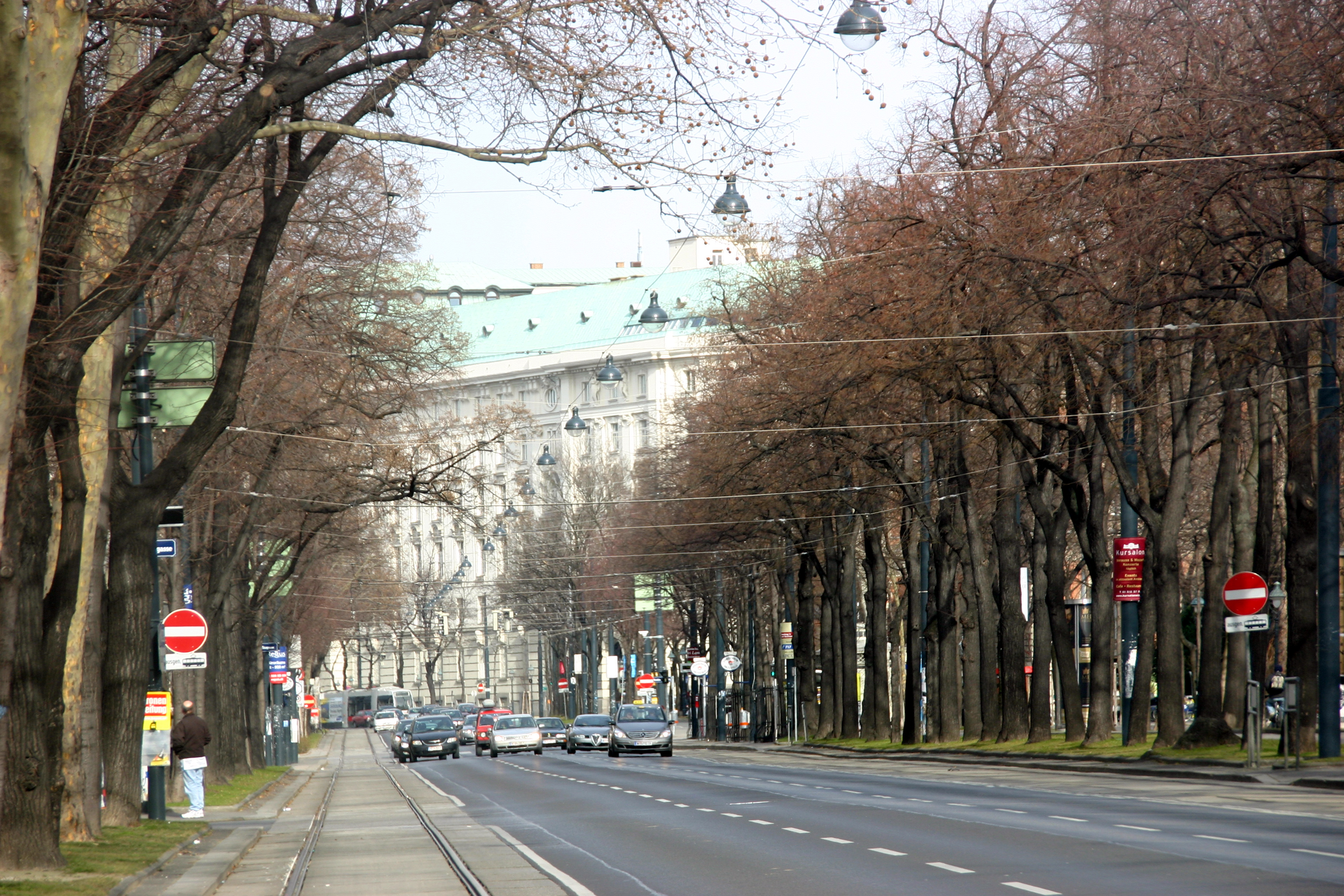 Stubenring, Vienna